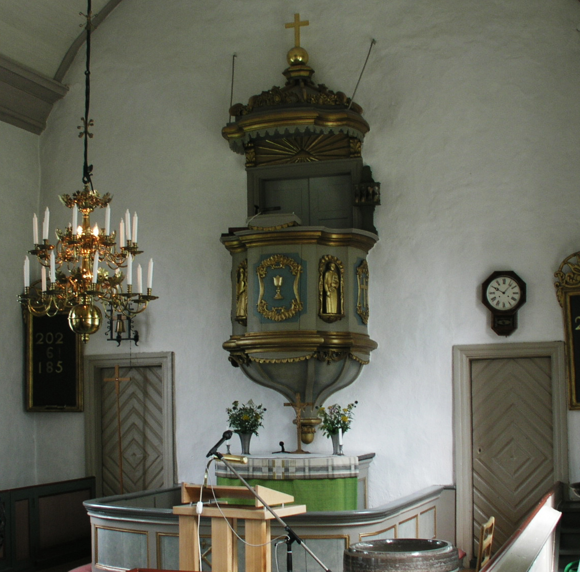 Ventlinge kyrka, Mörbylånga, Öland The picture was taken the 2nd of August 2005 by Håkan Svensson (Xauxa).